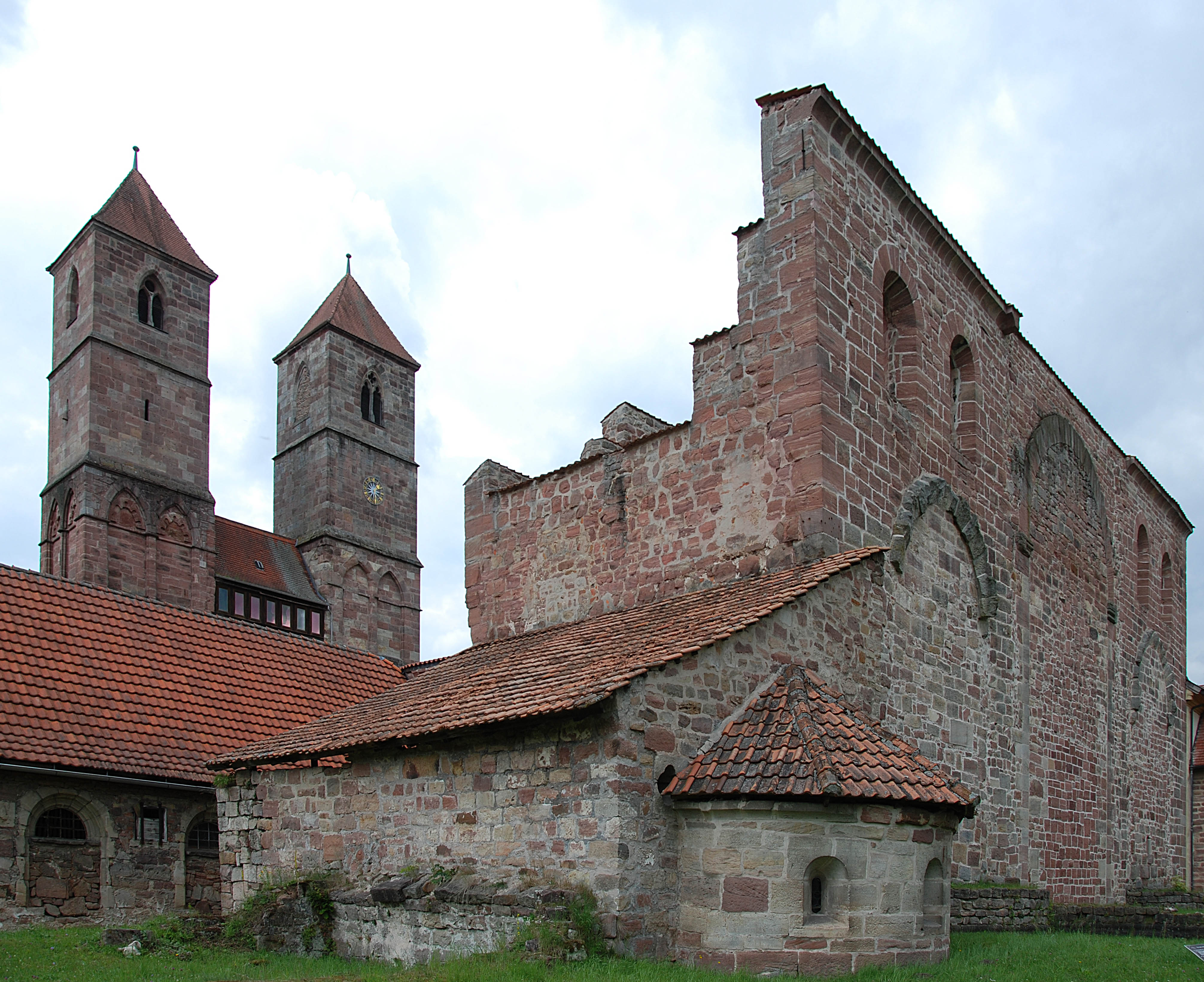 Vessra as viewed from the back